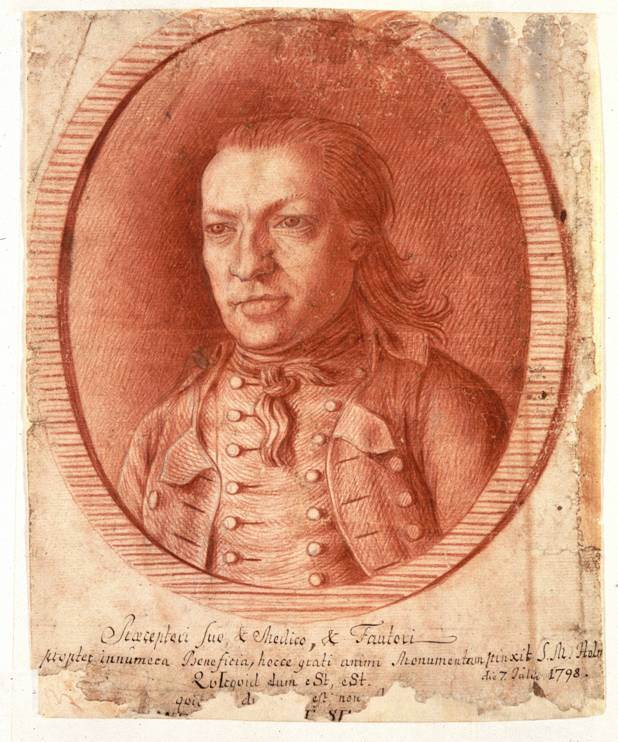 Sveinn Pálsson (July 7, 1798)